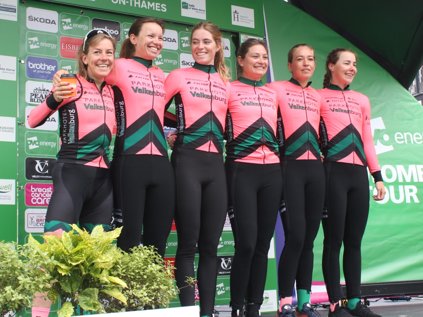 Ready for day three of the 2019 Women's Tour is the Parkhotel Valkenburg cycling team. They are Sophie de Boer, Belle de Gast, Roxane Knetemann, Femke Markus, Esther van Veen and Demi Vollering.